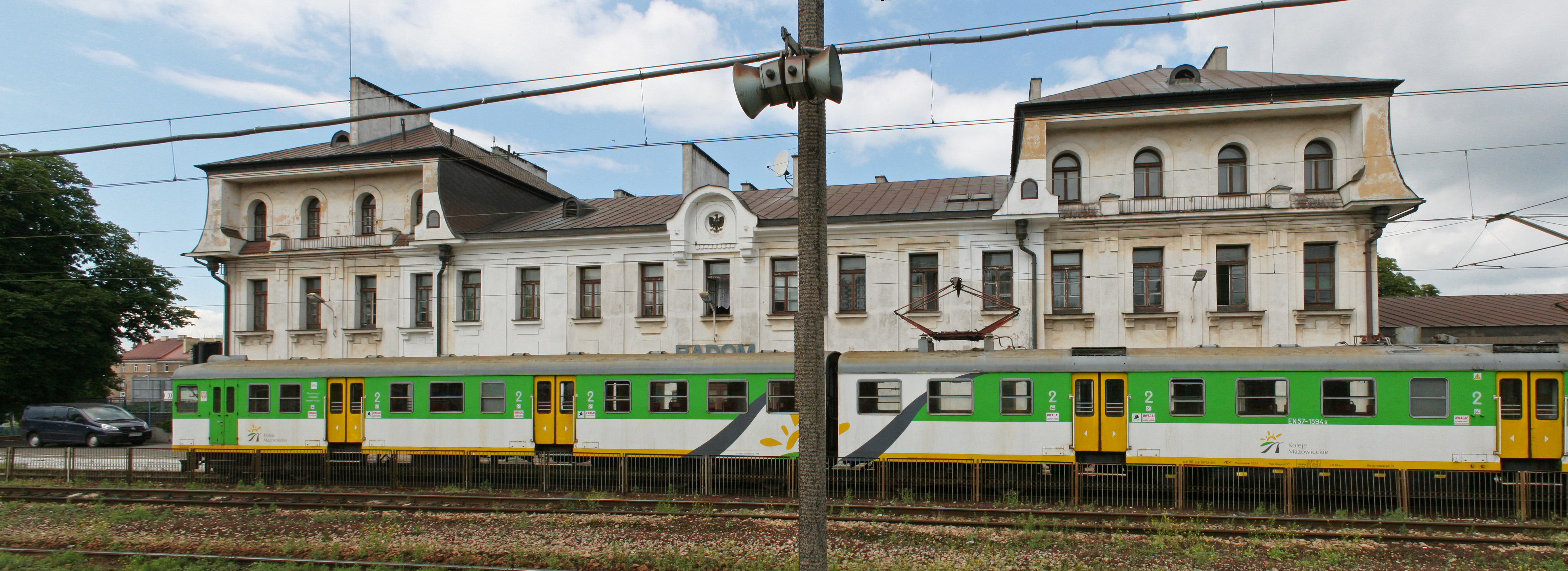 Train station in Radom.